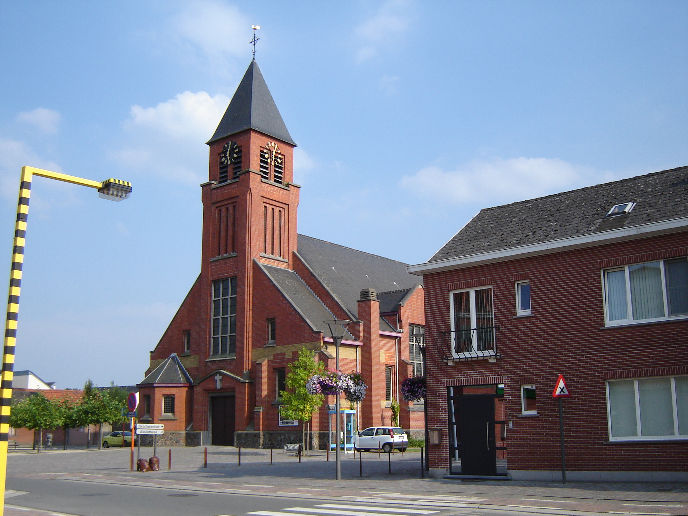 Center of the Overbeke quarter, with the Church of Saint Thérèse de Lisieux. Overbeke, Wetteren, East Flanders, Belgium